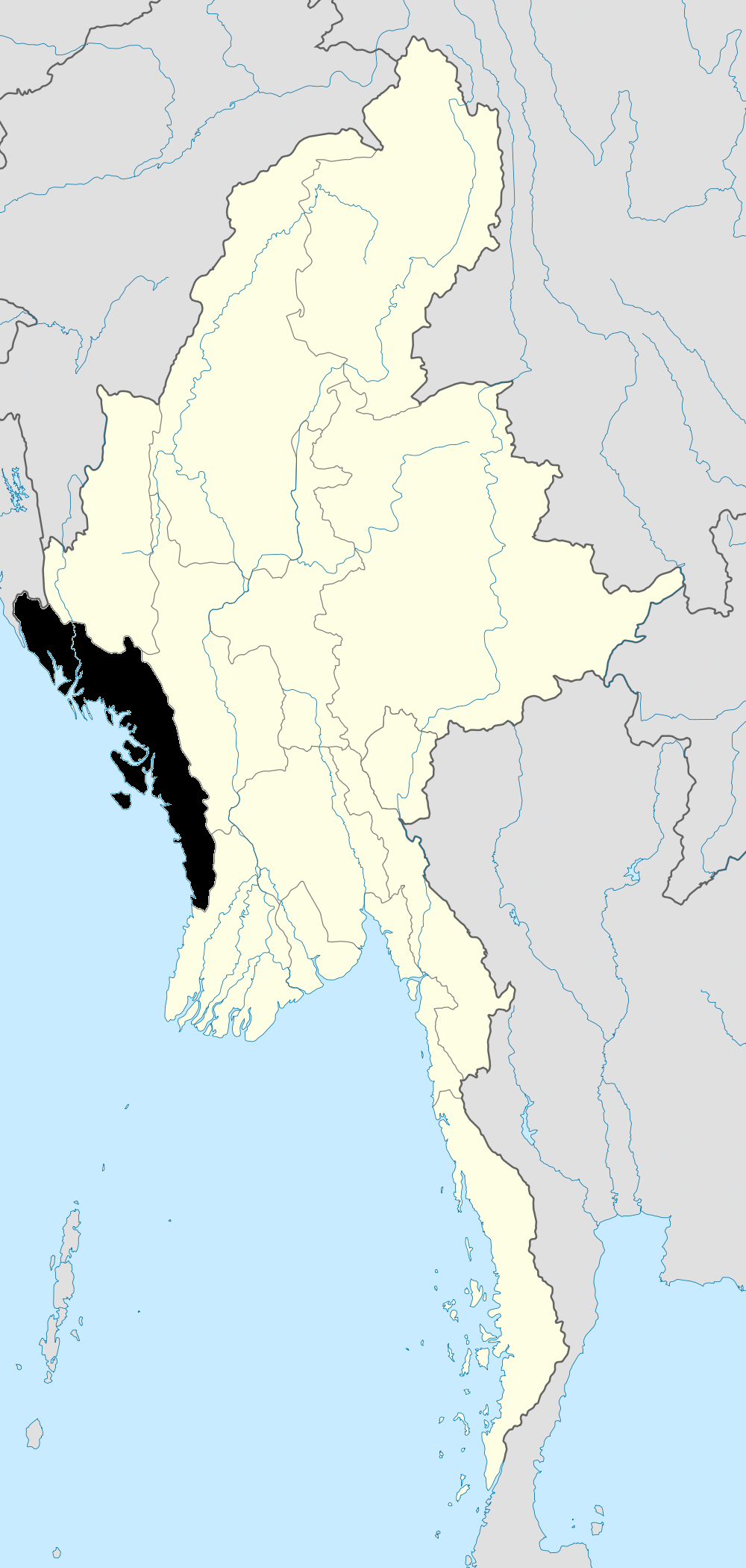 Map showing Rakhine in Burma